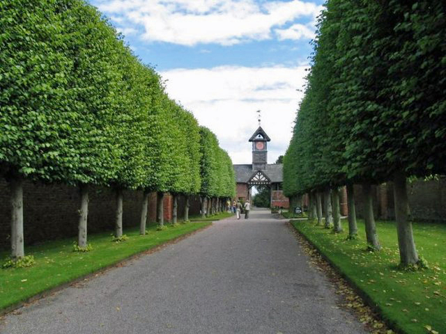 Arley Hall Lime Walk Lime trees pruned (pleached)as if they are a hedge on stilts.